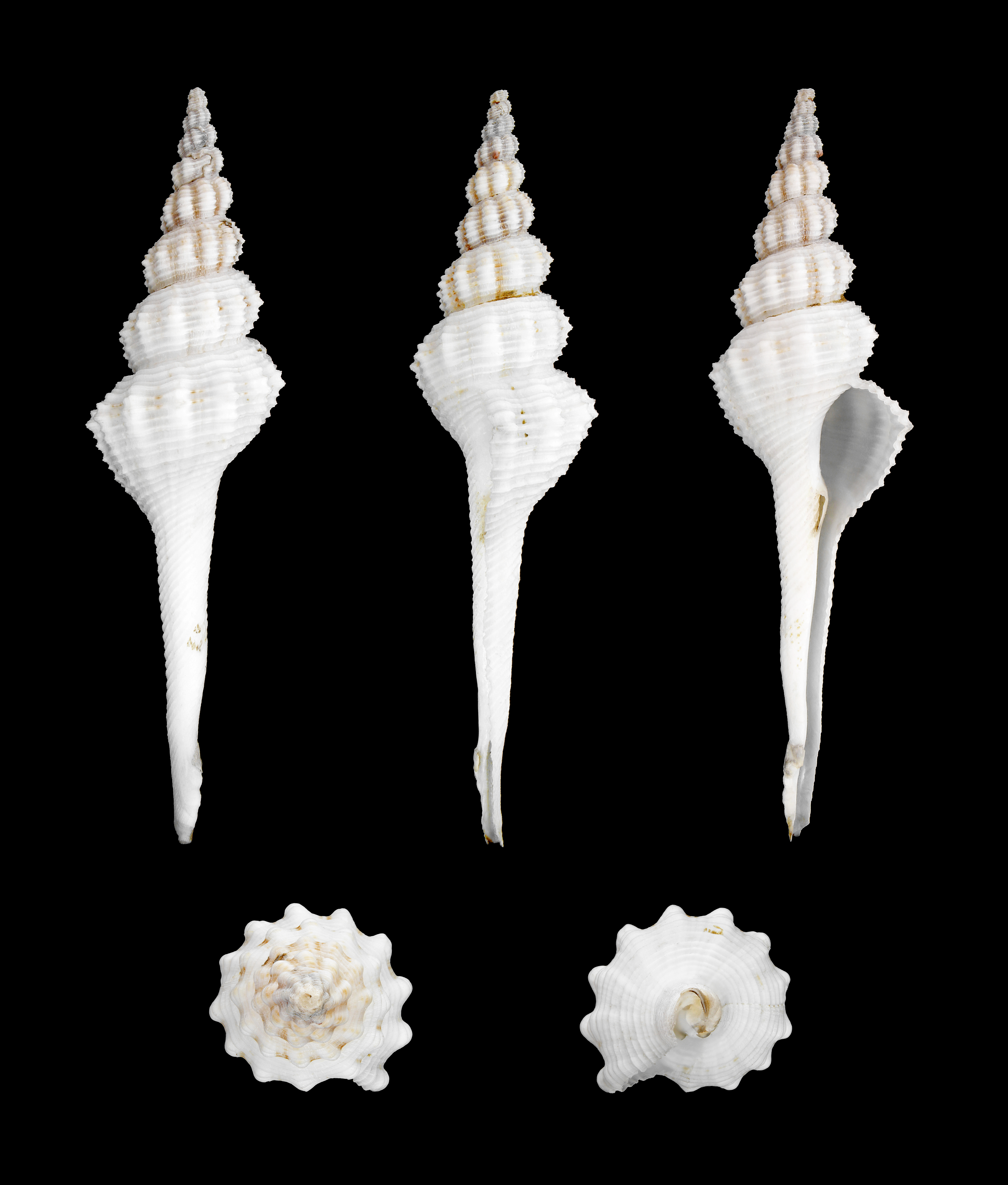 Forceps Spindle; Length 13.0 cm; Originating from the South China Sea; Shell of own collection, therefore not geocoded. Dorsal, lateral (right side), ventral, back, and front view.